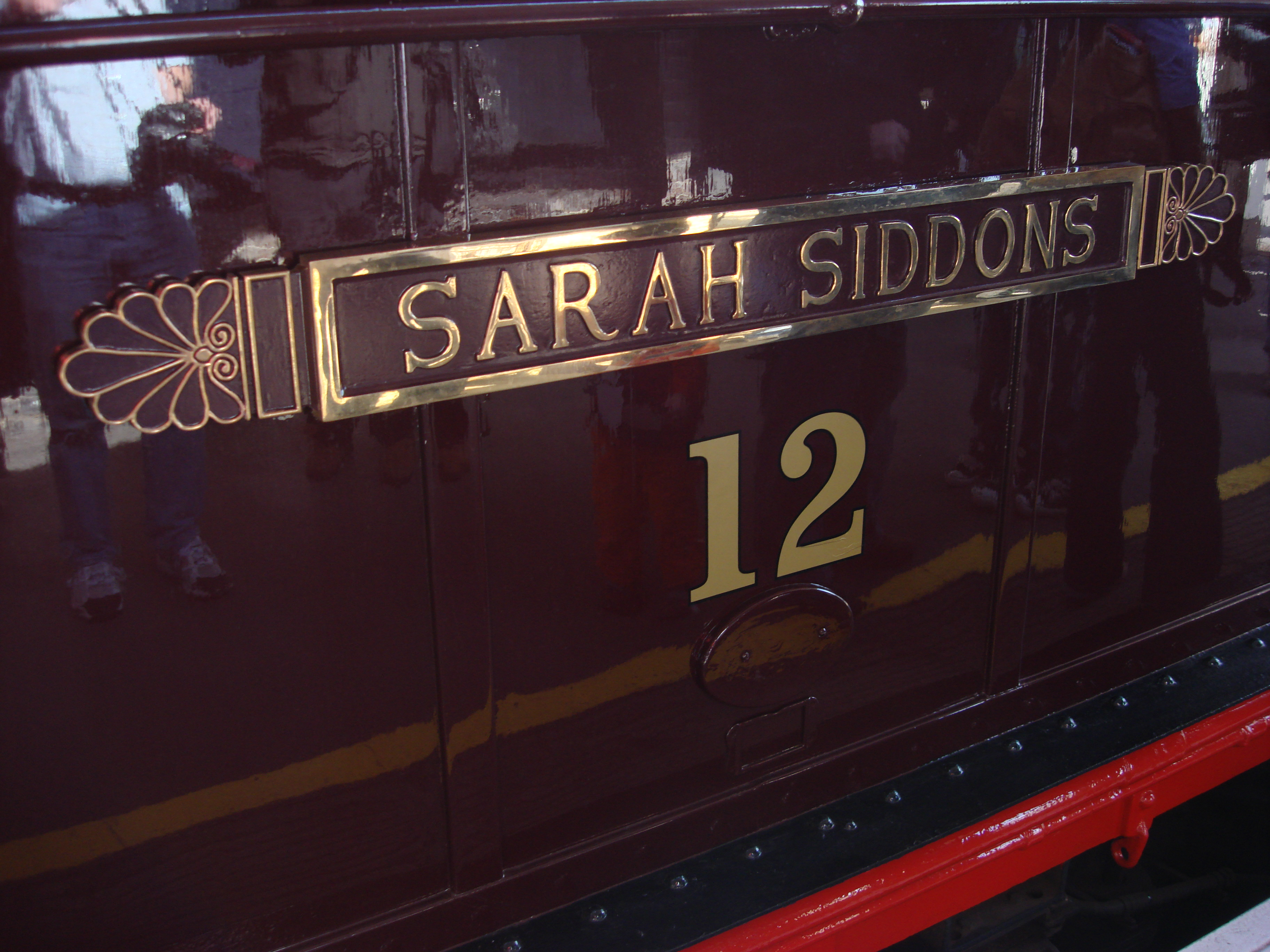 Metropolitan Railway locomotive number 12 "Sarah Siddons" constructed by Metropolitan Vickers in 1921. Preserved in working order and seen here at Amersham station.